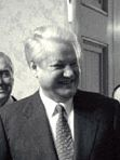 President Yeltsin at Novoya Ogarova Dacha, Russia